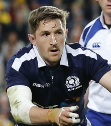 2017.06.17.16.58.59-Henry Pyrgos The 2017 mid-year rugby union international, 17 June 2017, Australia vs Scotland at Allianz Stadium, Sydney